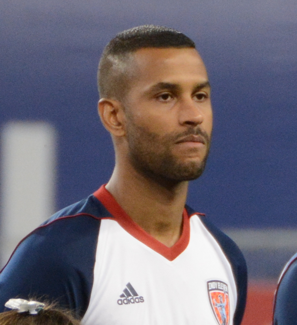 Carlyle Mitchell, Reiner Ferreira, Kevin Venegas, Elliot Collier, Karl Ouimette Taken during a USL regular season match between FC Cincinnati and Indy Eleven at Nippert Stadium in Cincinnati, USA on September 29, 2018.